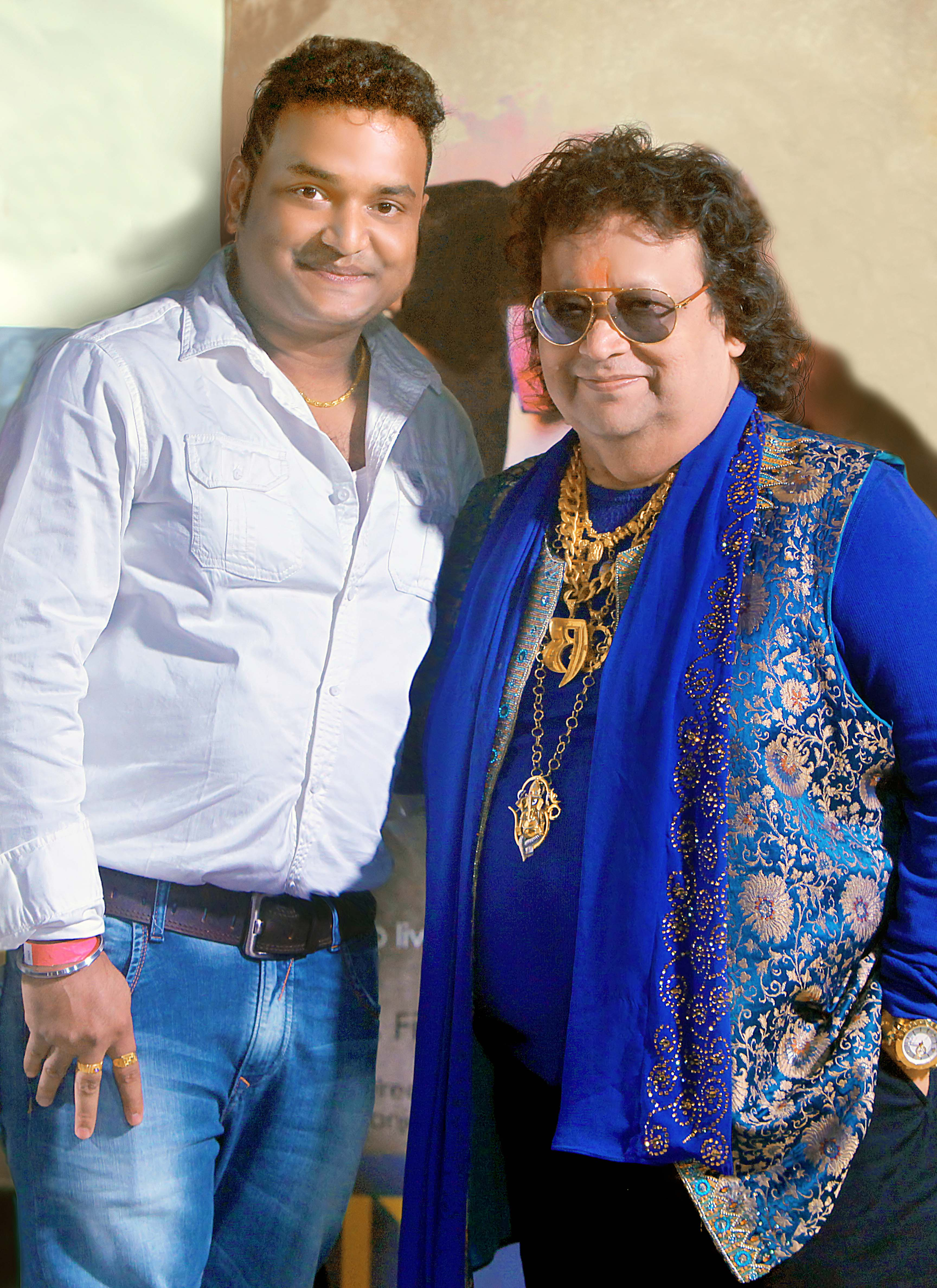 Sanjiv Routh Sarkar With Bappi Lahiri